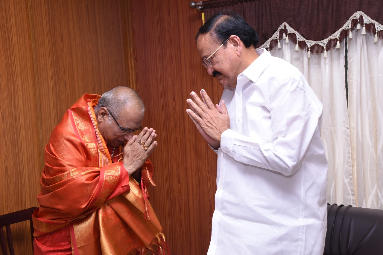 Felicitation by Vice President Venkaiah Naidu, 2019